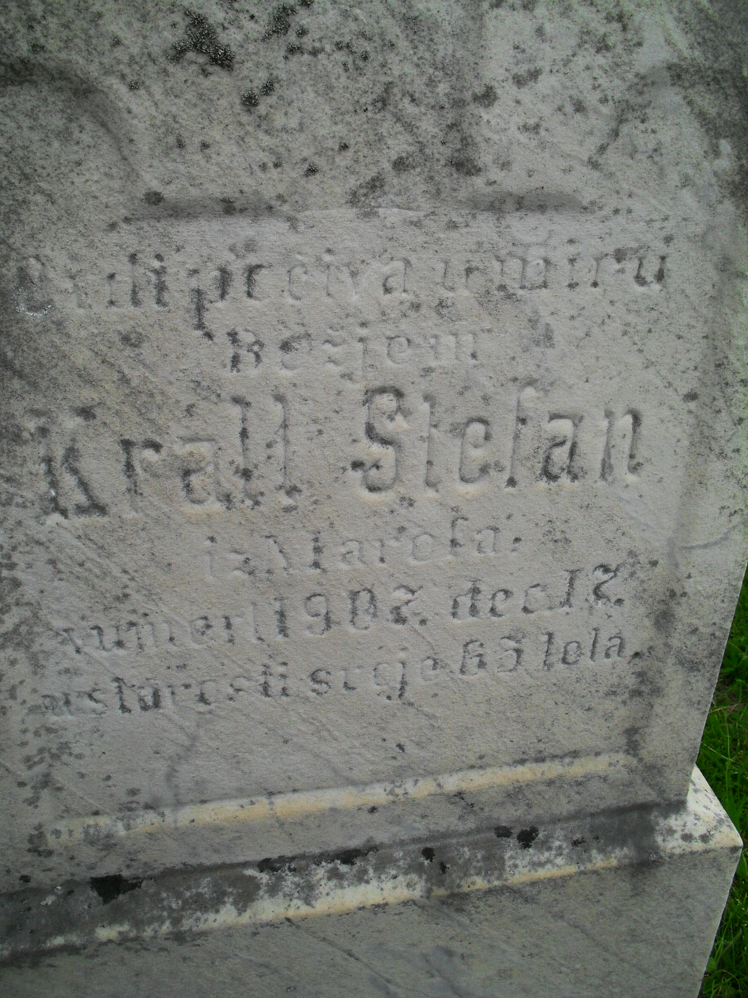 The grave of Štefan Krall in Sveti Martin na Muri, Međimurje Croatia. Inscription in Kajkavian language (kajkavski).